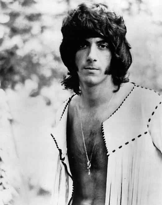 Publicity photo of Sonny Geraci, who was with the US band Climax.